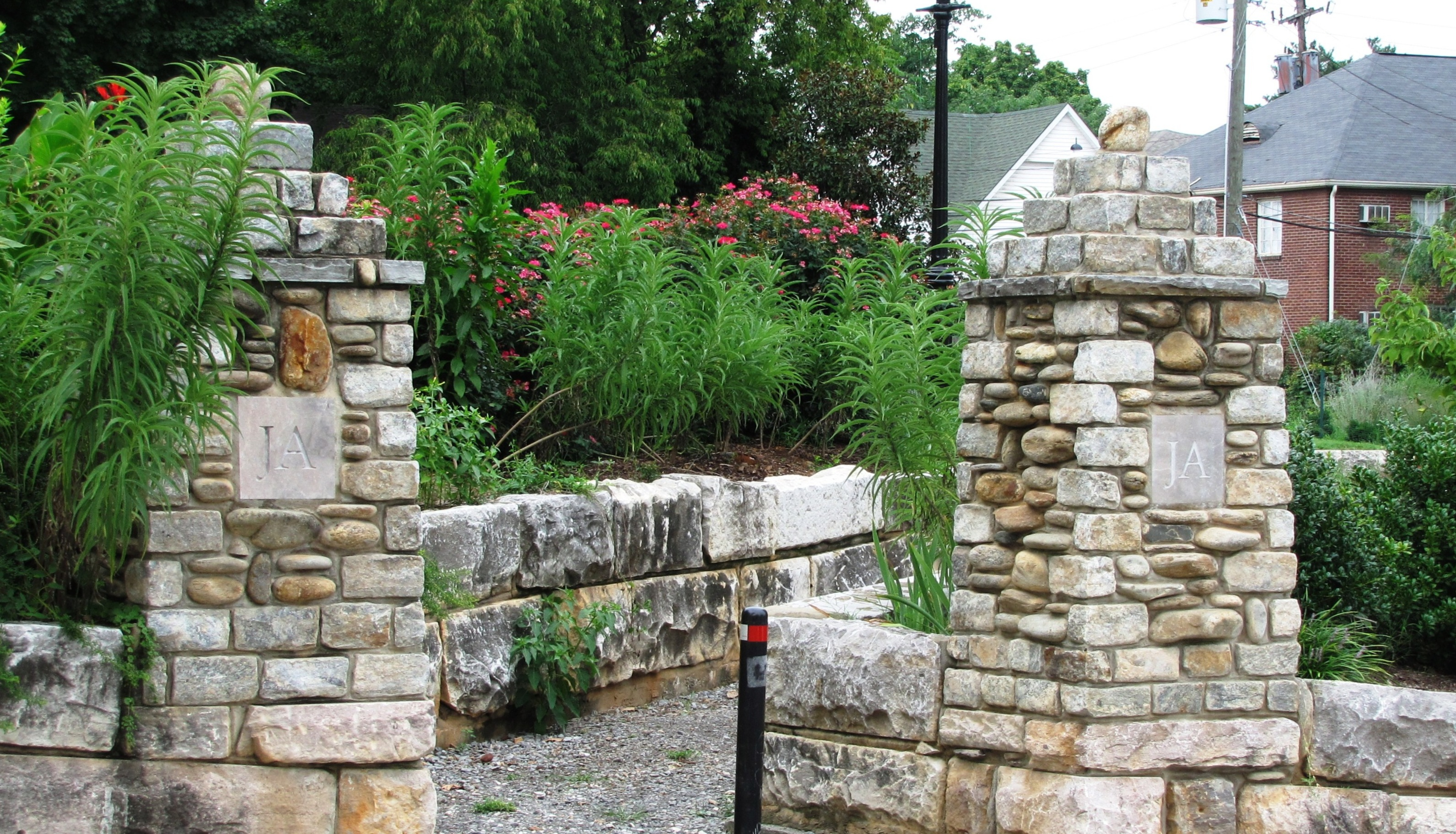 James Agee Park along Laurel Avenue in the Fort Sanders neighborhood of Knoxville, Tennessee, USA. The park was once the site of house owned by Knoxville mayor Samuel B. Luttrell. The author, James Agee, lived nearby.